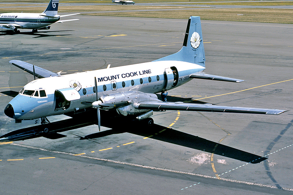 Mount Cook Airline Hawker Siddeley HS-748 at Christchurch Airport